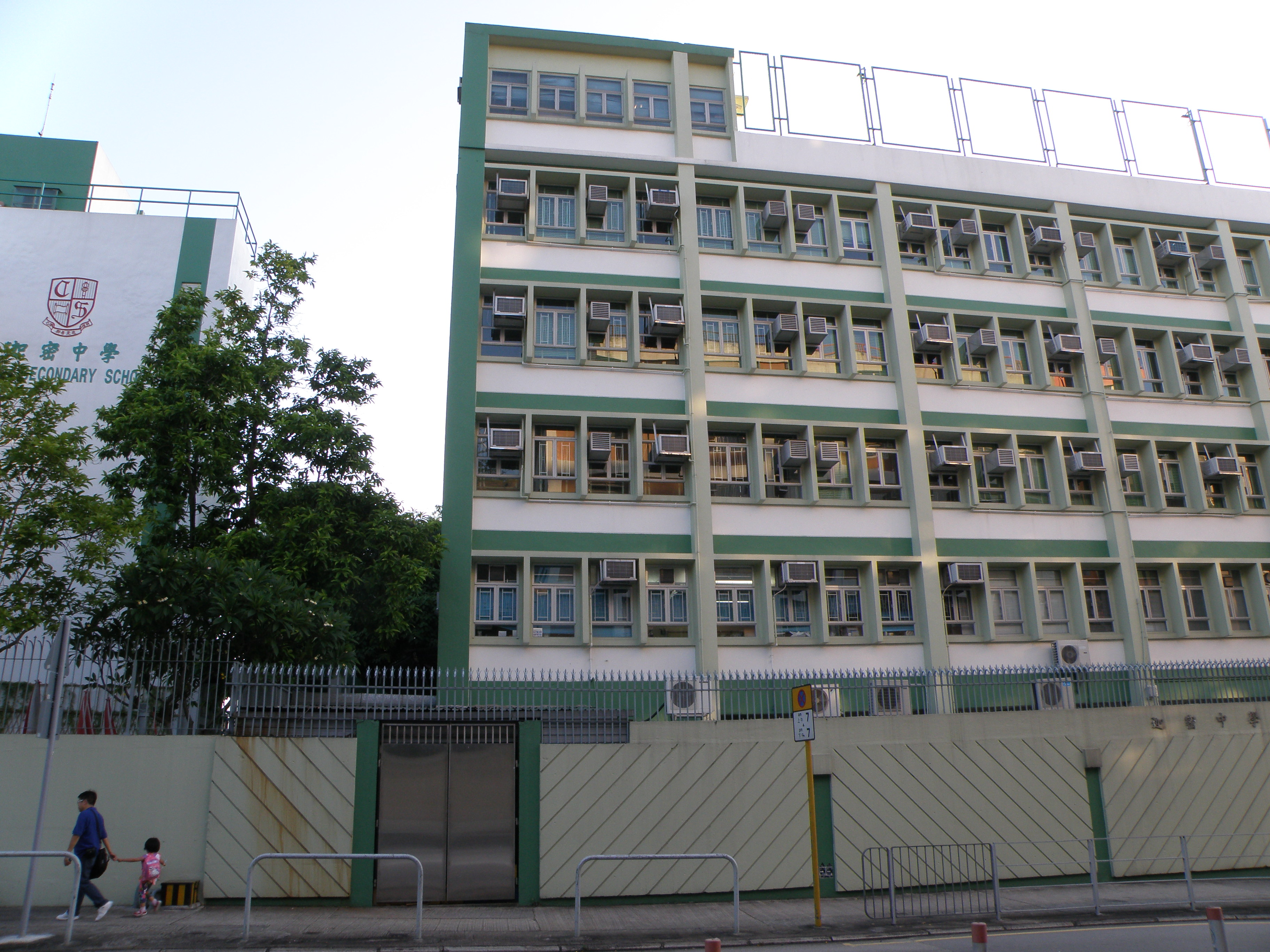 Carmel Secondary School in Ho Man Tin, Hong Kong.